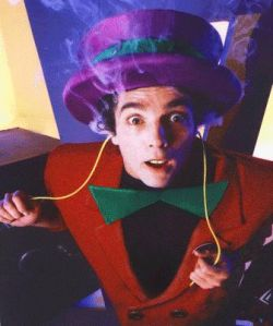 Sylvester the Jester